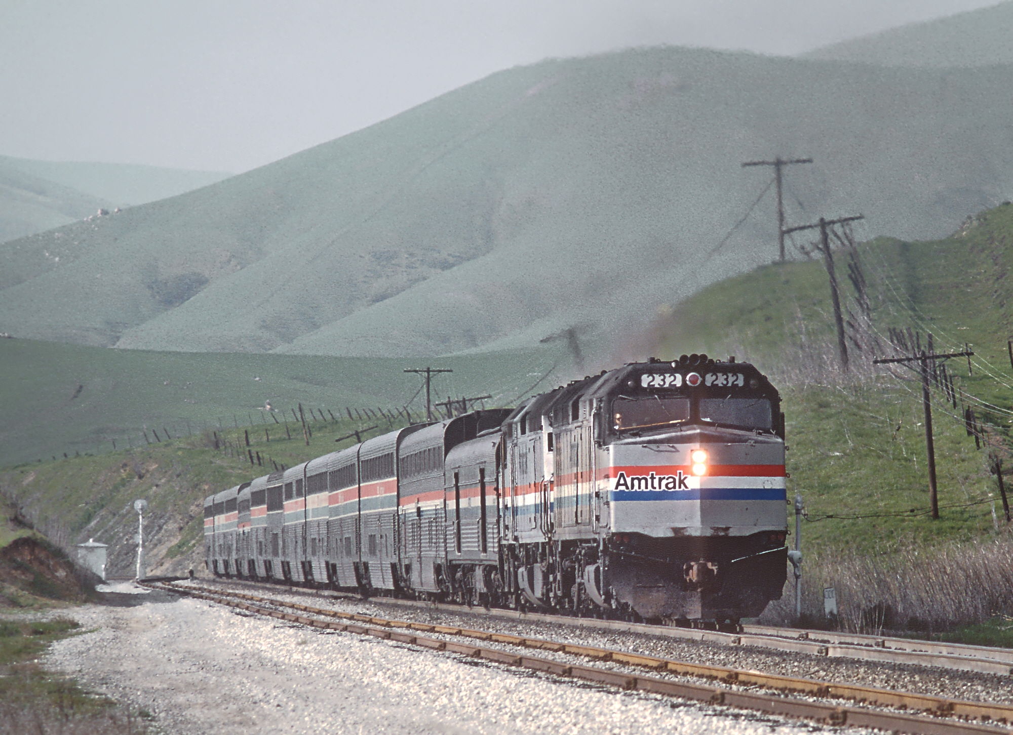 Roger Puta located himself on the inside of the upper leg of the horseshoe curve above San Luis Obispo one day in March 1985. He shot a freight train, which I'll post and the Coast Starlight, both uphill trains. Amtrak 292 and a sister F40PH were in charge of the Coast Starlight that day. First he caught it on the trestle on the end of the lower leg of the horseshoe a little north of San Louis Obispo. Then he squeezed off three shots after it rounded the curve and was climbing toward him. It's all up hill since before the trestle and well beyond where he was standing. ERROR. This is a different train led by 232 not 292. Roger tricked me!